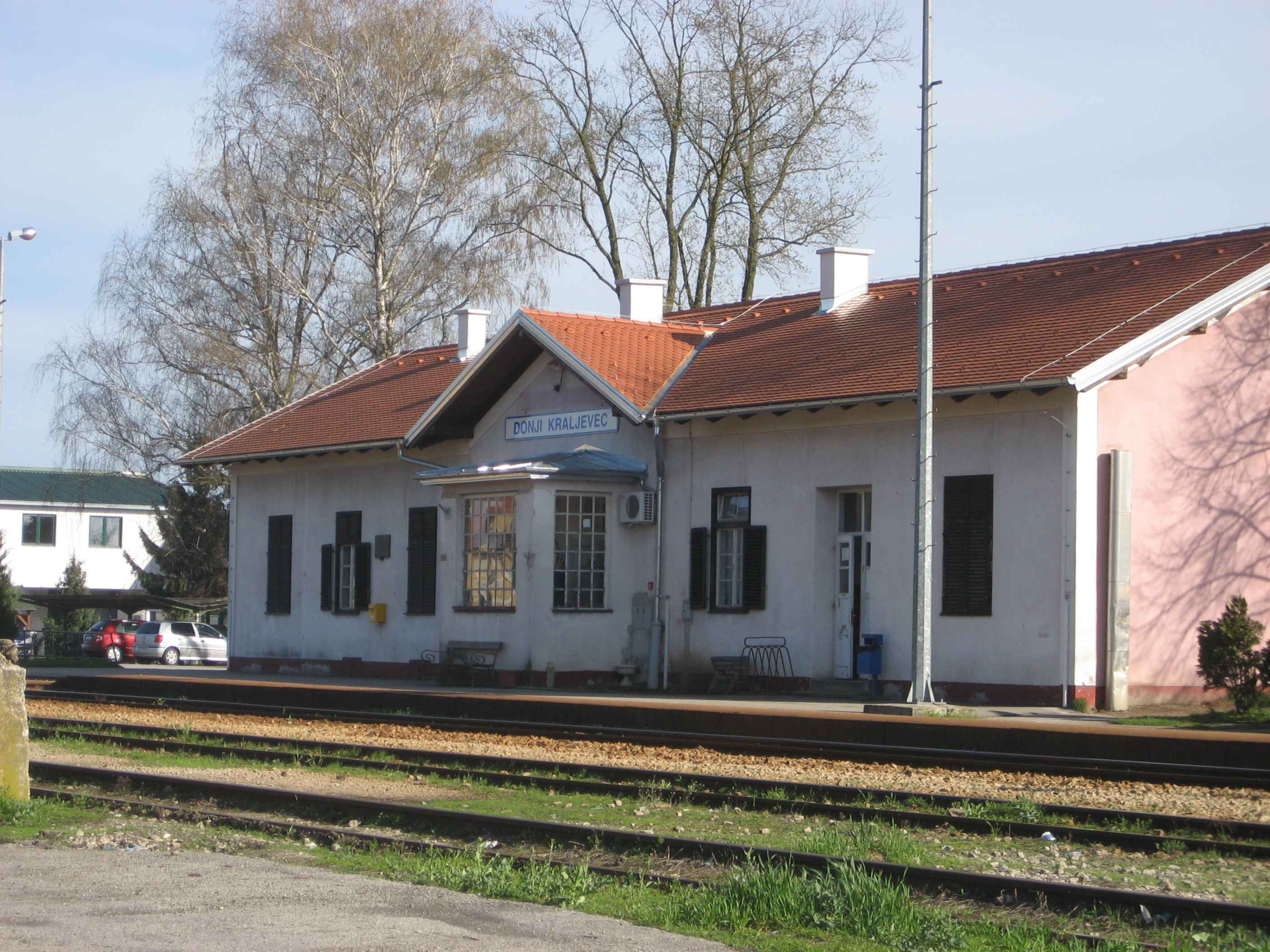 Railway Station, Donji Kraljevec, Croatia